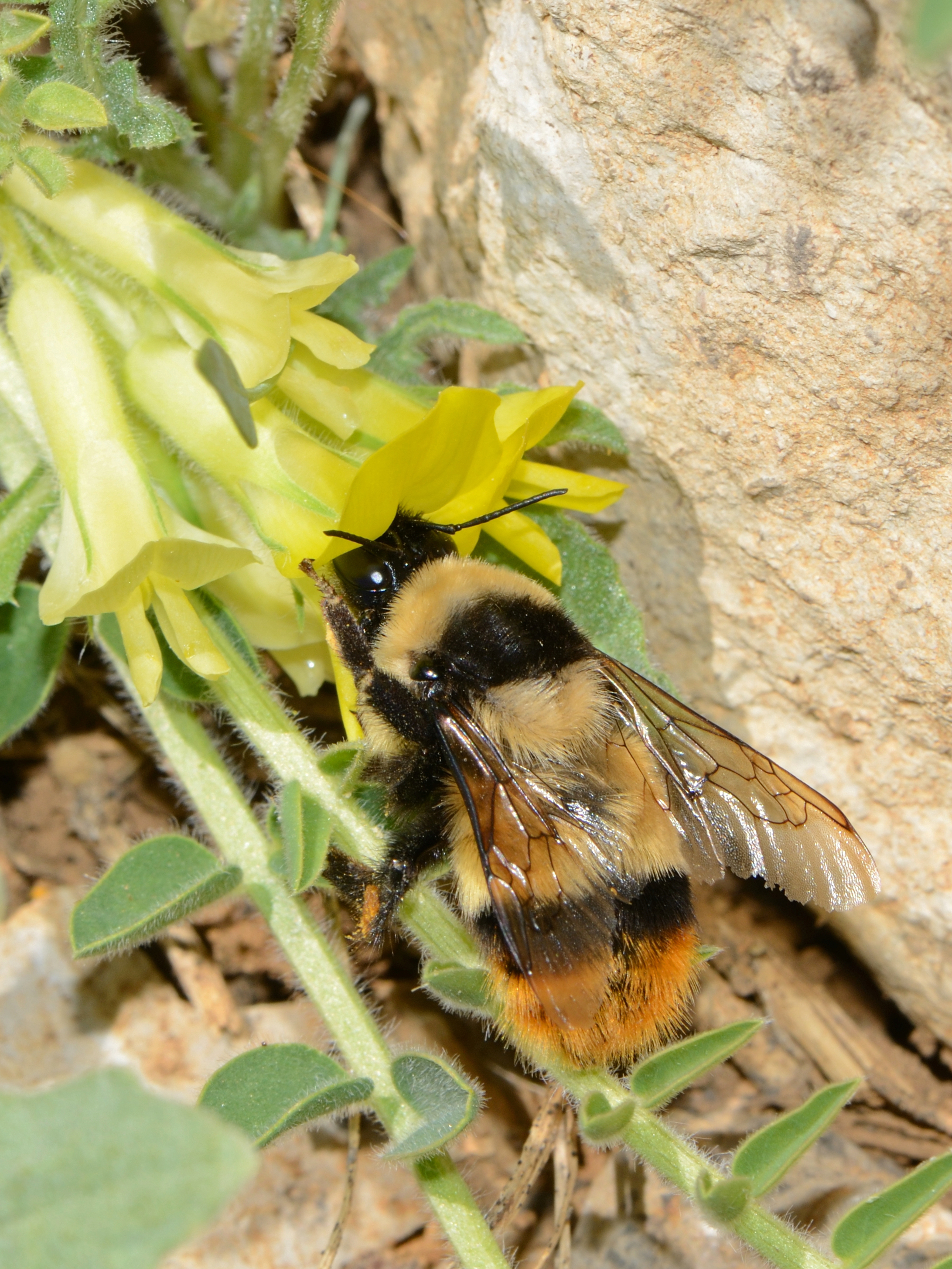 Bombus niveatus collecting nectar from Astragalus pinetorum, Mount Hermon, Israel/Syria, June 22, 2012.